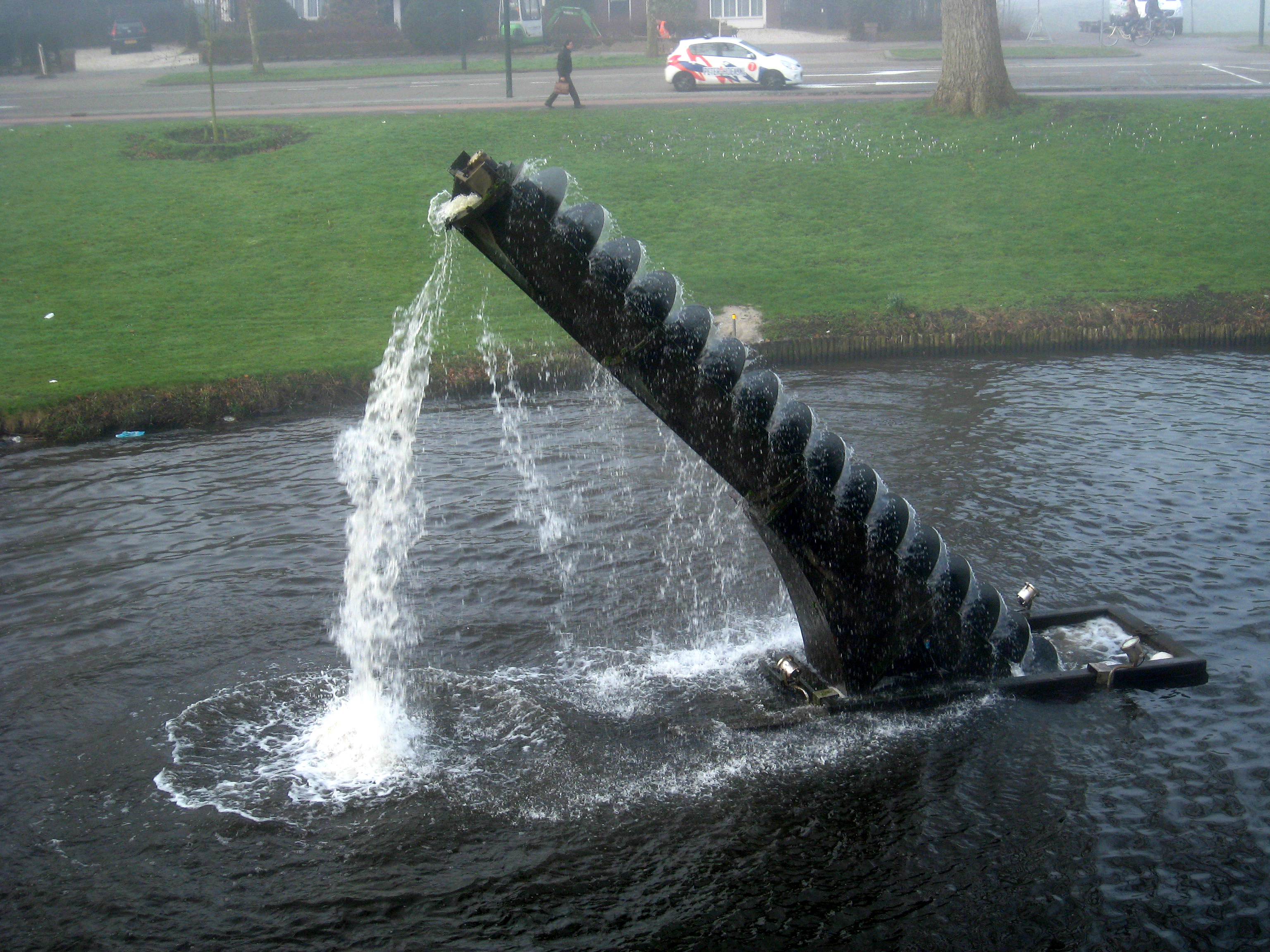 Archimedean screw. Sculpture by Tony Cragg in 's-Hertogenbosch, the Netherlands.